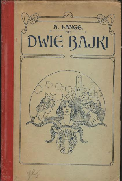 The cover of Antoni Lange's Book, "Dwie Bajki"